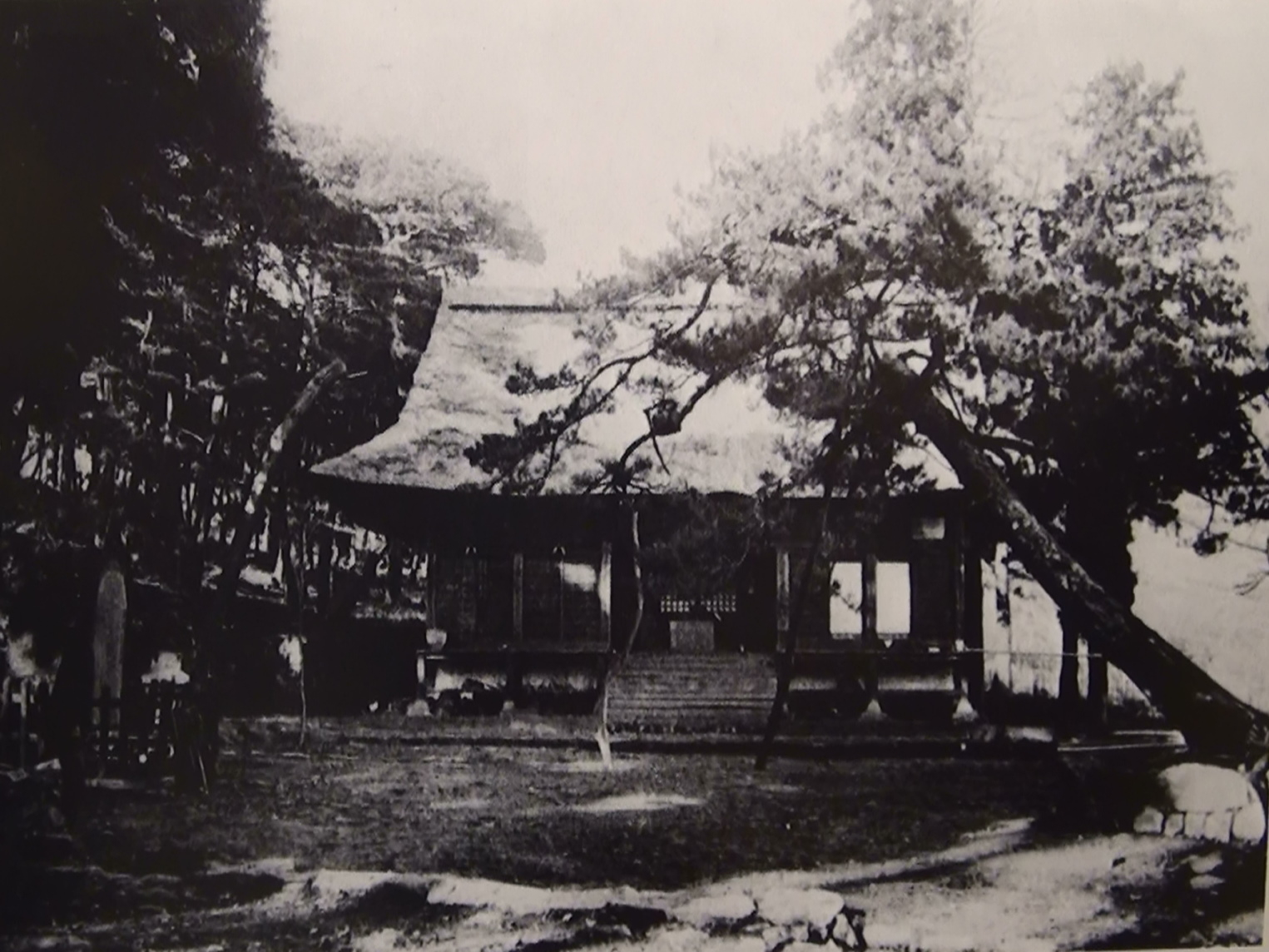 Sakaori-miya shrine 1911